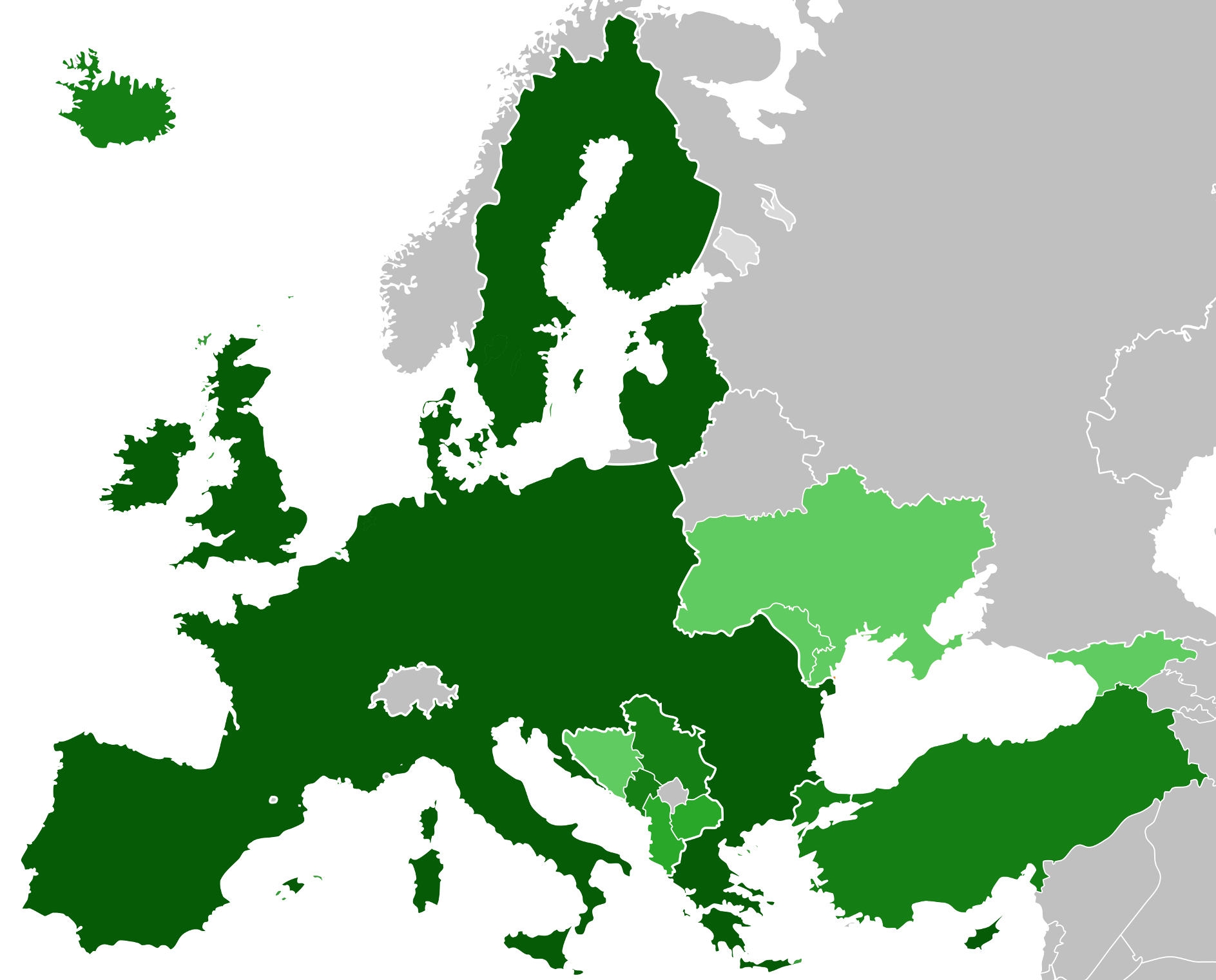 Europe. Stages of eurointegration EU Association Agreement signature (Countries with Euro-Mediterranean Agreement Establishing an Association aren't marked) Council grants candidate status to Applicant Membership negotiations start Members of the EU